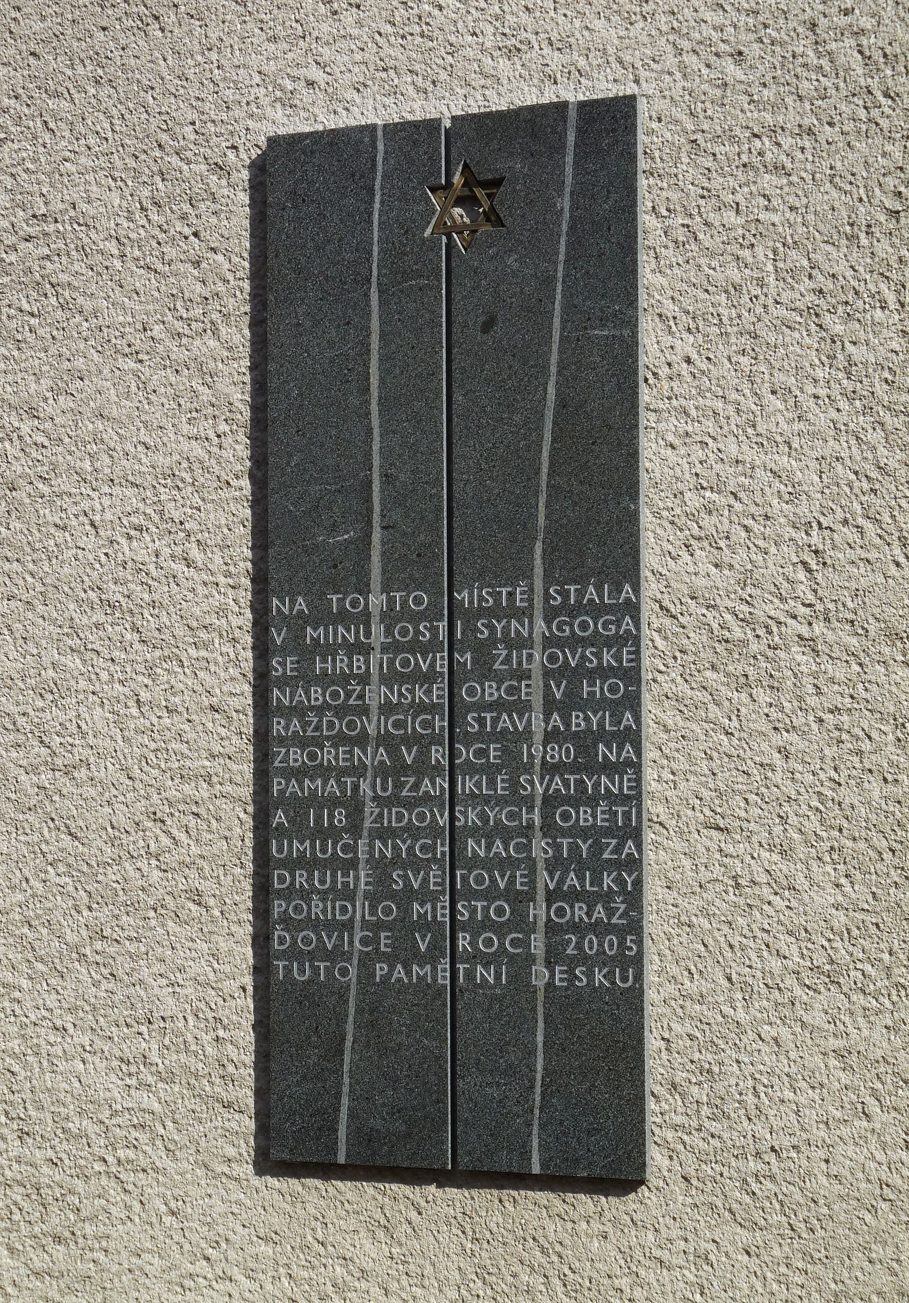 Memorial of the synagogue in the town of Horažďovice, Klatovy District, Czech Republic